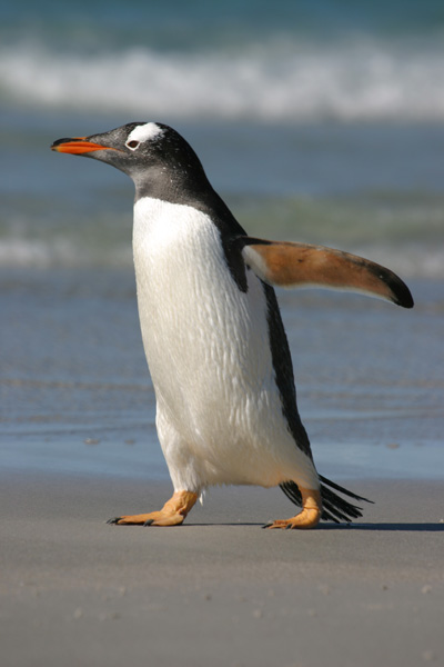 Gentoo penguin on Saunders Island Copyright 2004, Ryan Holliday. The original image can be found at Dual-licensed under the Attribution-ShareAlike 1.0 license and the GFDL. This image may also be used under any later version of the Attribution-ShareAlike license.